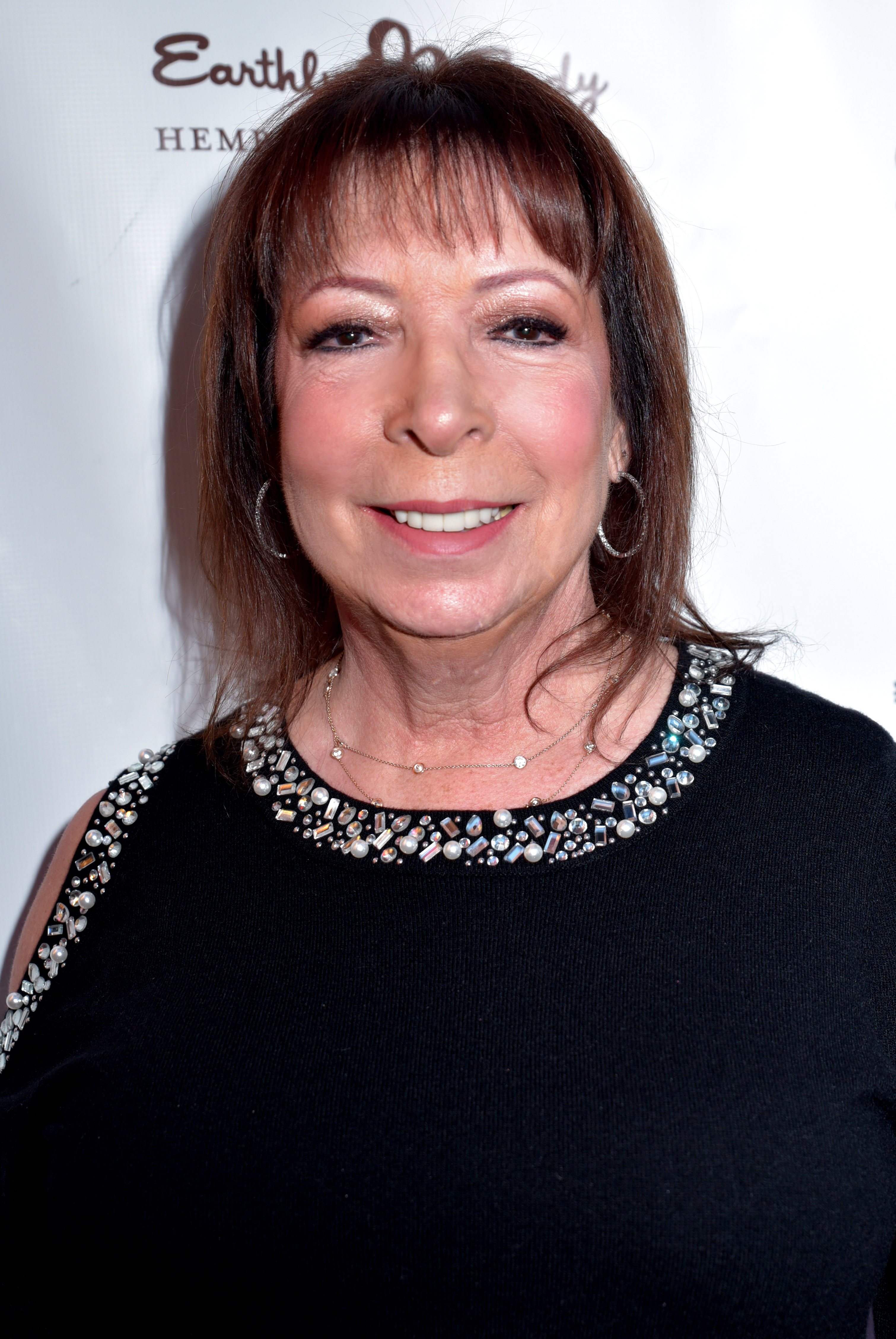 Marilyn Wilson-Rutherford arrives for the California Saga 2 Charity Concert in Los Angeles California on July 3, 2019 - Photo by Glenn Francis of